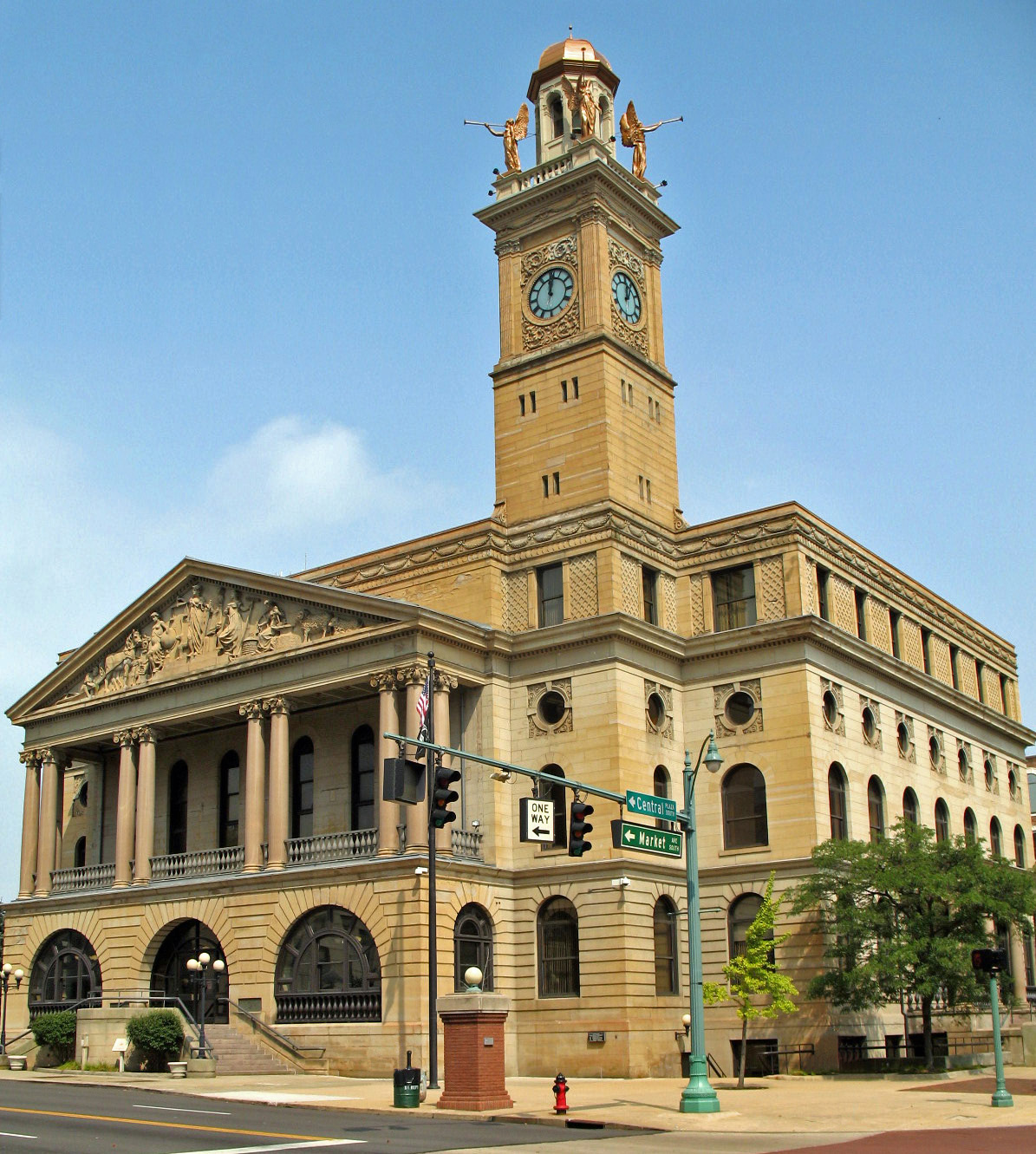 Registered Historic Places in Stark County, Ohio. Stark County Courthouse, Market and Tuscarawas Sts., Canton, Ohio, USA. Photographed 2008-08-29 from the southeast corner of Tuscarawus St. E. and Market Ave. S.